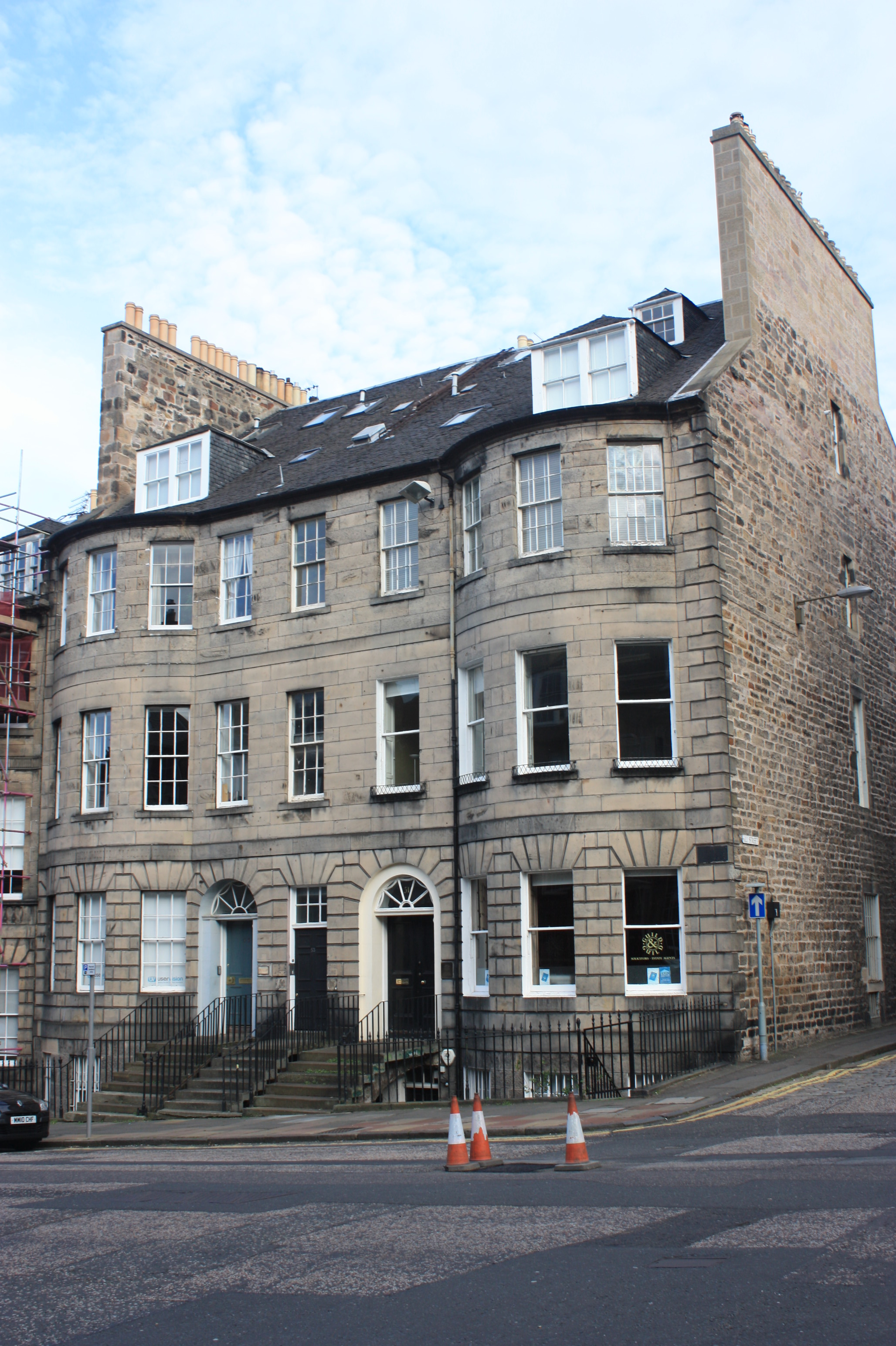 51 to 55 North Castle Street, Edinburgh